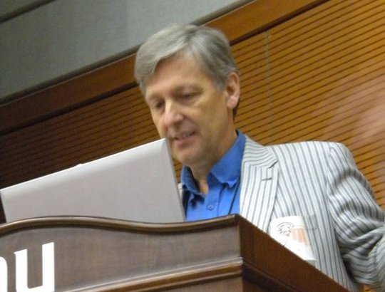 A picture of the Canadian economist Marc Lavoie.